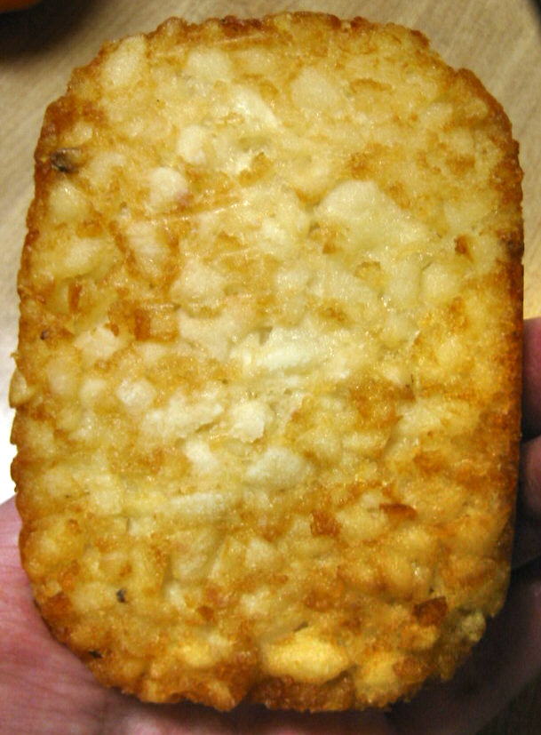 Hashbrown potato patty This image was created by Whitebox, and is licensed under the following license